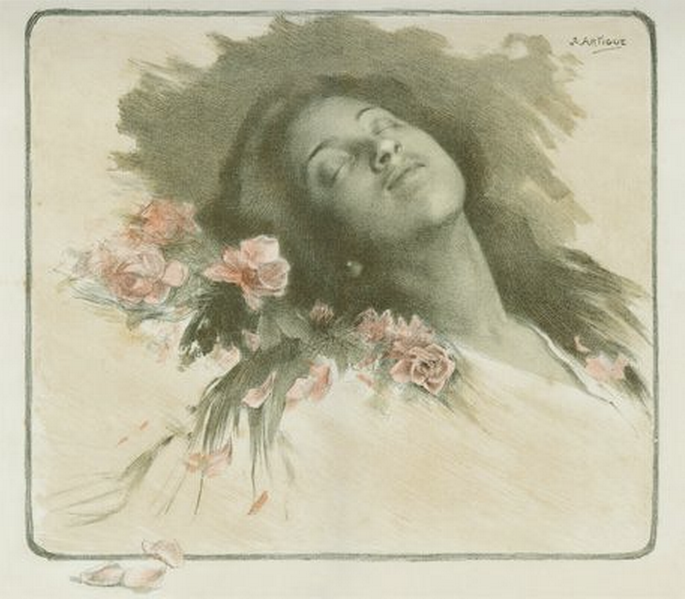 A sleeping woman [?] by Albert-Emile Artigue, zincographic printing for L'Estampe moderne, Paris.